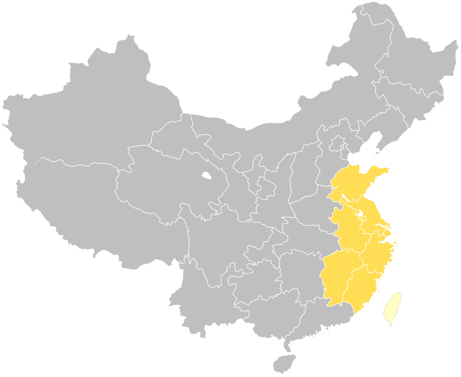 Huadong (eastern provinces of China)